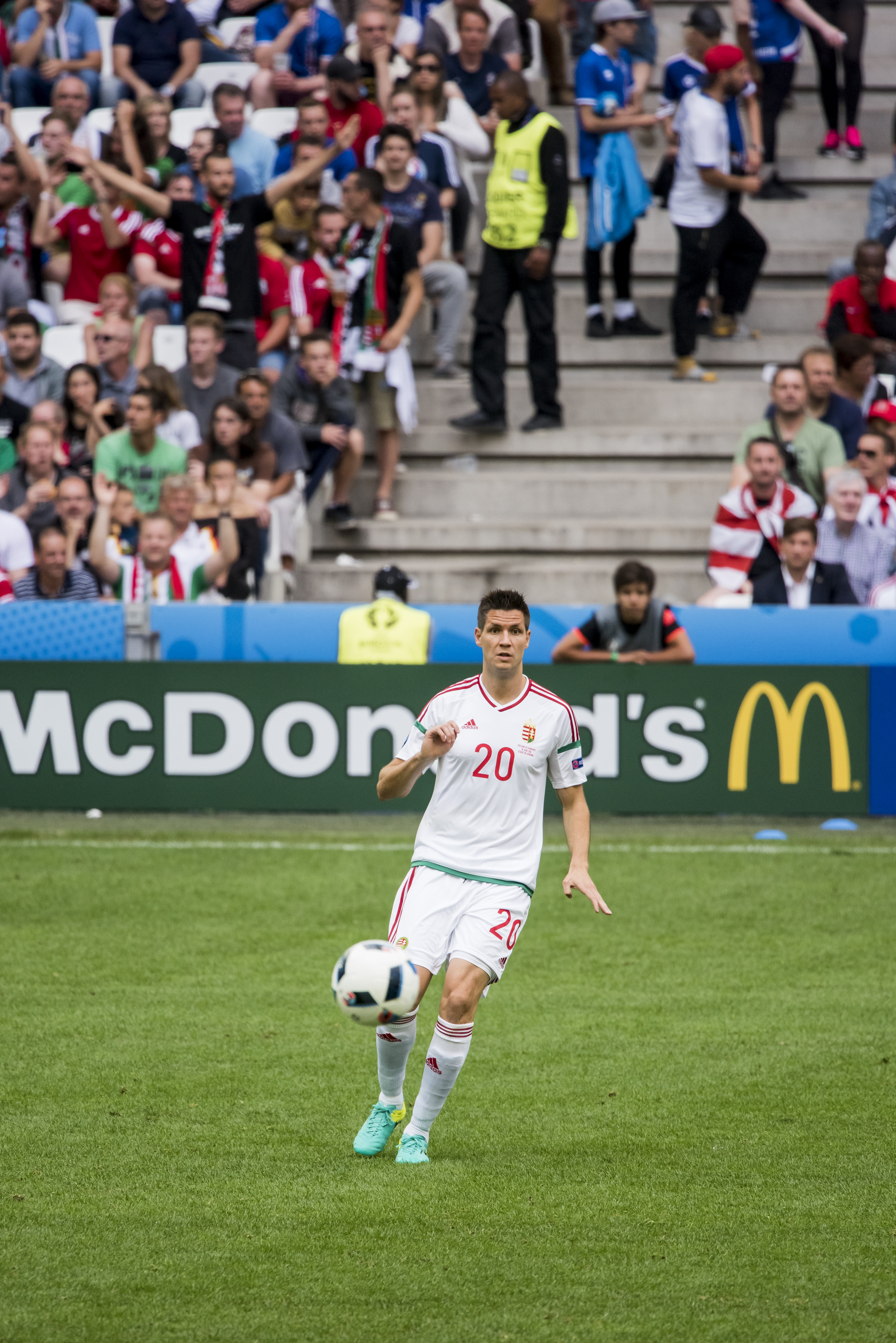 richard guzmics playing for Hungary against Iceland at the UEFA Euro 2016